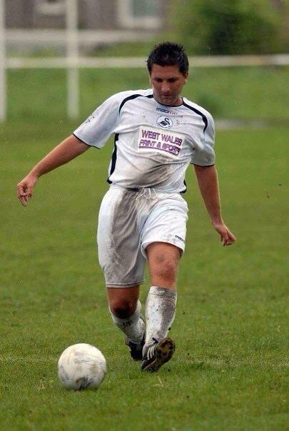 Football Player: Ashleigh Hopkins (Swansea City AFC / Plymouth Argyle FC) The FA UEFA 'A' Licence Coach